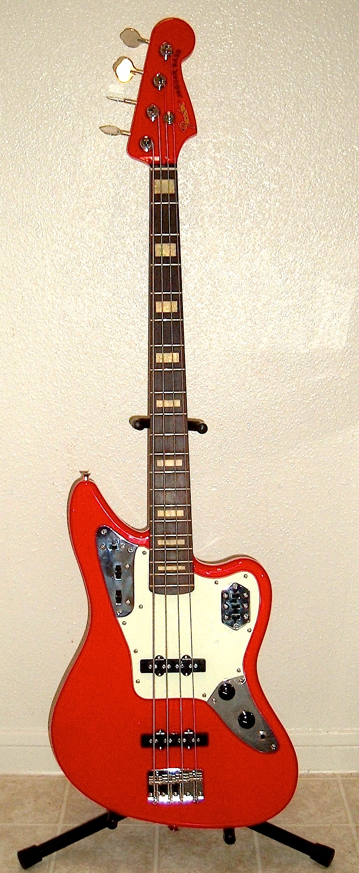 The front view of a Fender Jaguar Bass. This is a 2007 model, with a "Hot Rod Red" finish.